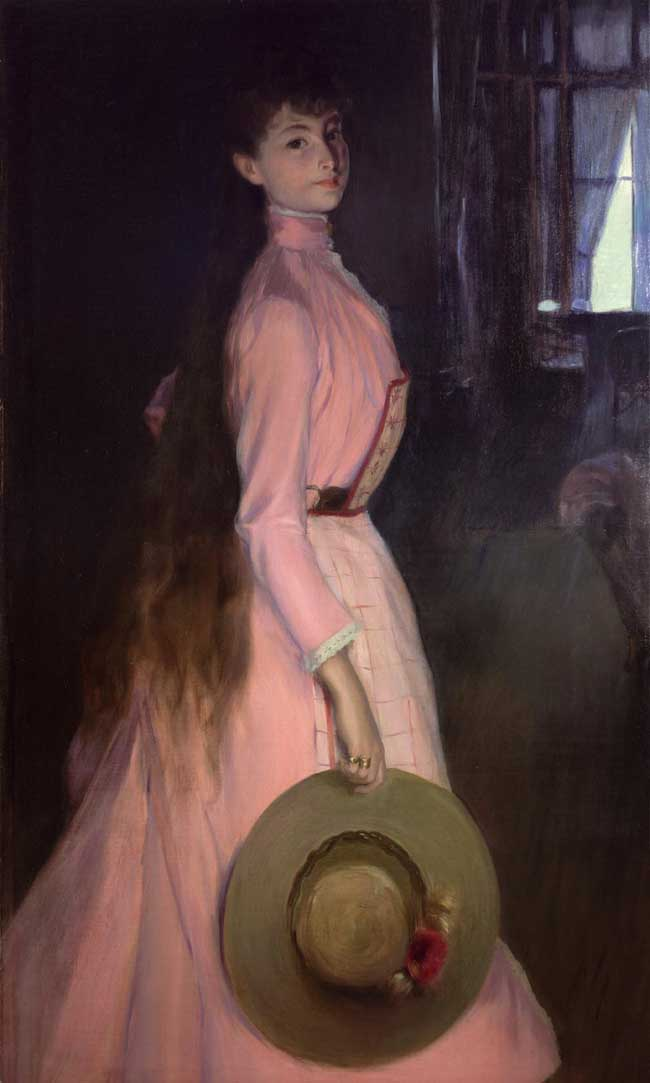 Donna Olga Caracciolo would have been eighteen years old at the time of this painting.